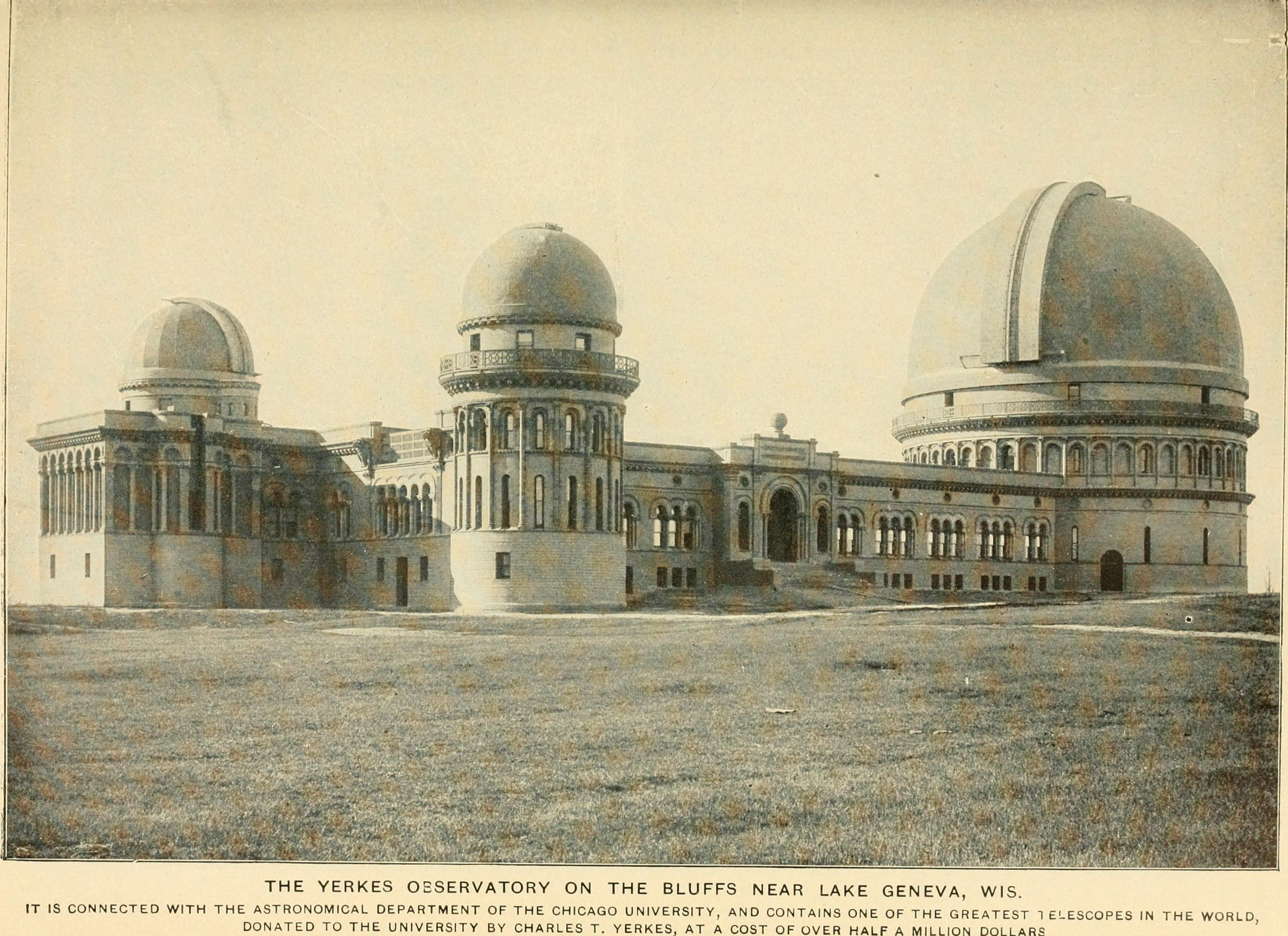 Title: Grandest century in the world's history; containing a full and graphic account of the marvelous achievements of one hundred years, including great battles and conquests; the rise and fall of nations; wonderful growth and progress of the United States ... etc., etc Year: 1900 (1900s) Authors: Northrop, Henry Davenport, 1836-1909 Subjects: Nineteenth century Publisher: Philadelphia, Pa., National publishing co Text Appearing Before Image: ' Text Appearing After Image: '